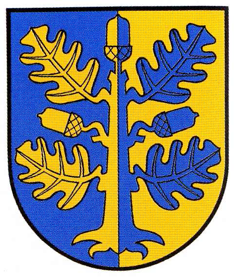 Coat of Arms of Bahrdorf